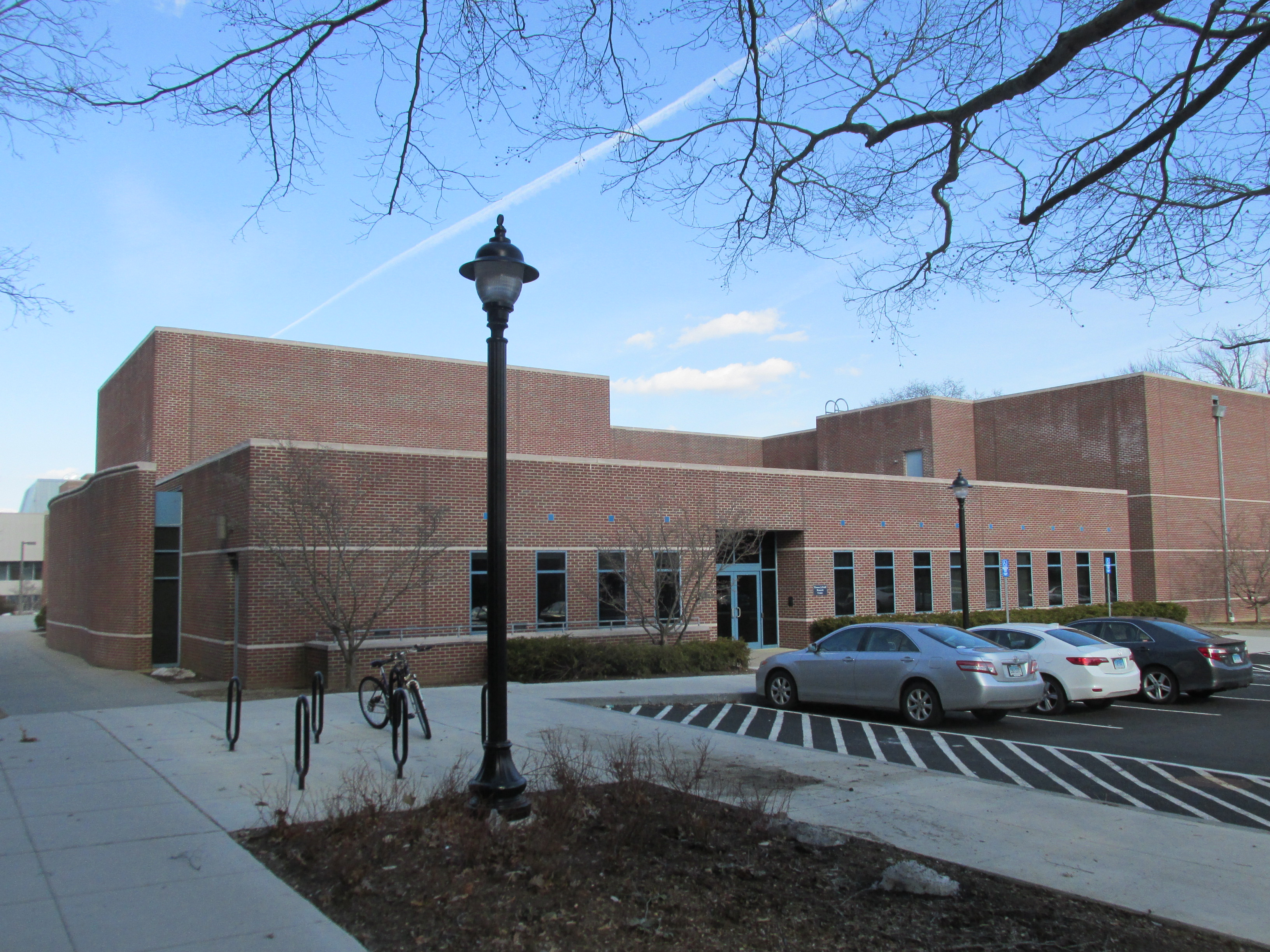 Thomas J Dodd Research Center, University of Connecticut, Storrs Connecticut